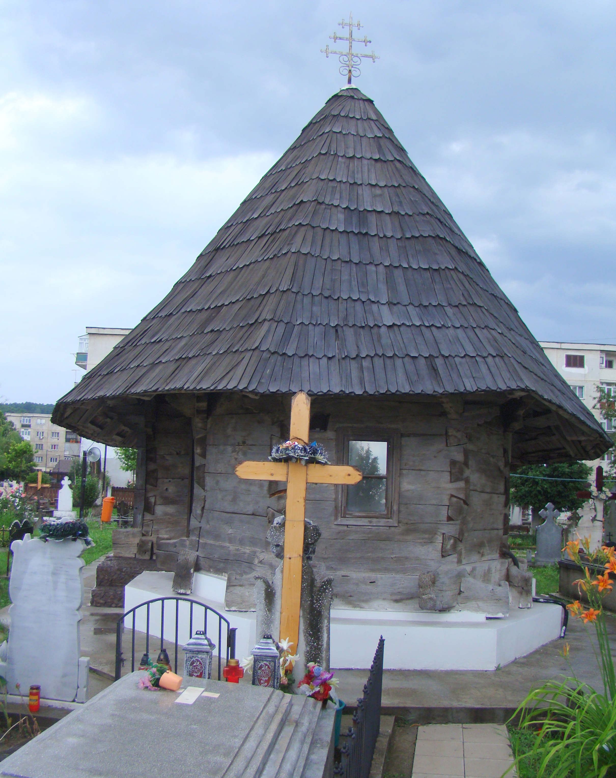 Wooden church in Rovinari, Gorj county, Romania